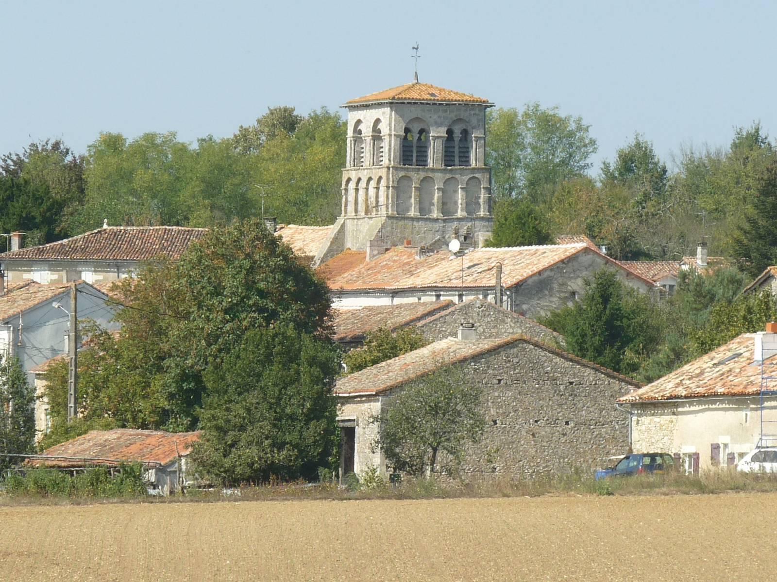 church